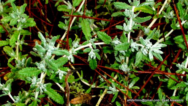 نباتات برّية سورية تؤكل